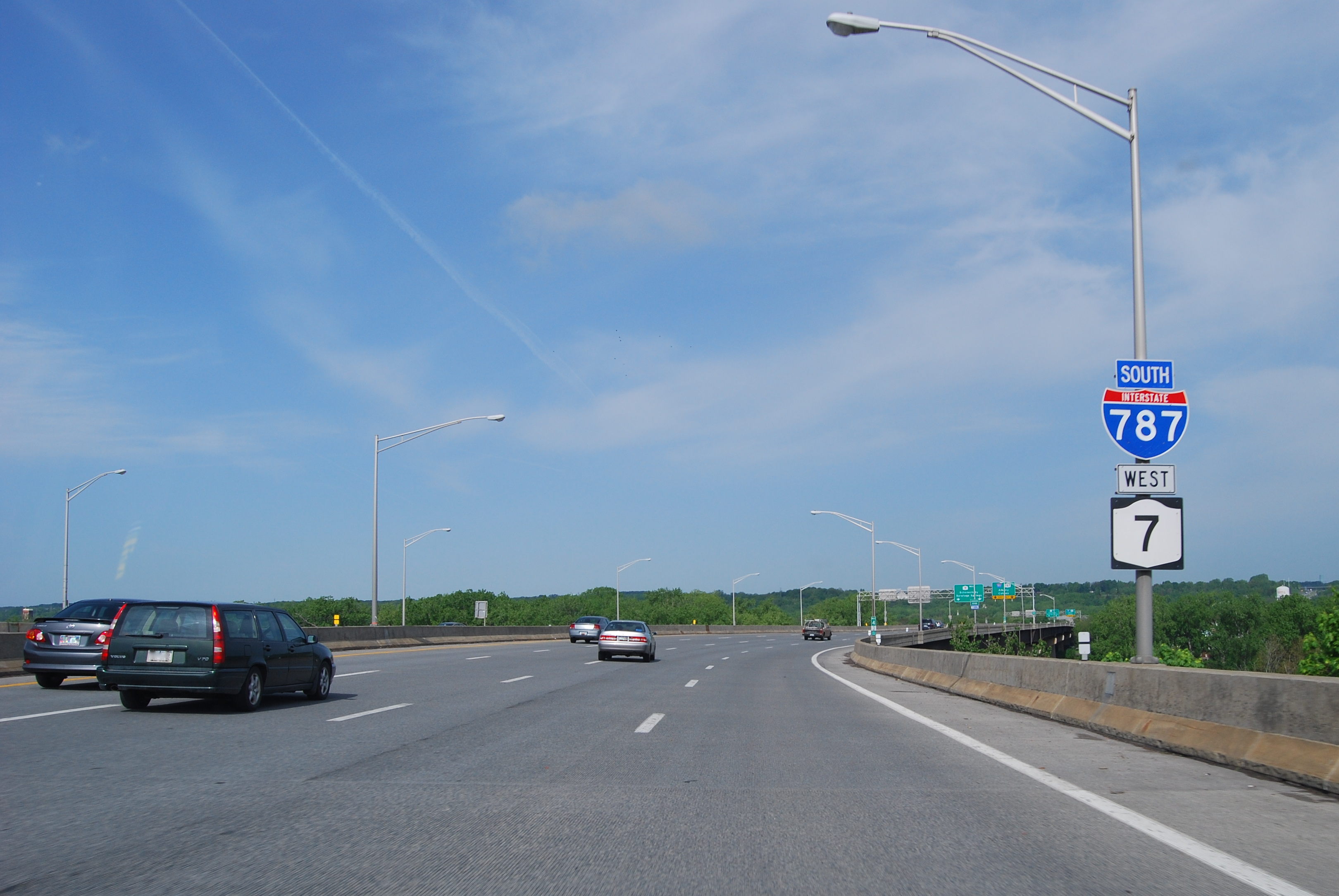 Very north end of Interstate 787 (on the Collar City Bridge) in Troy, New York, United States